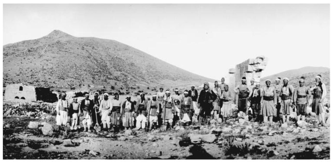 Gertrude Bell's workers at the excavations of the Byzantine settlement of Madenşehir, Binbirkilise, Turkey 1907